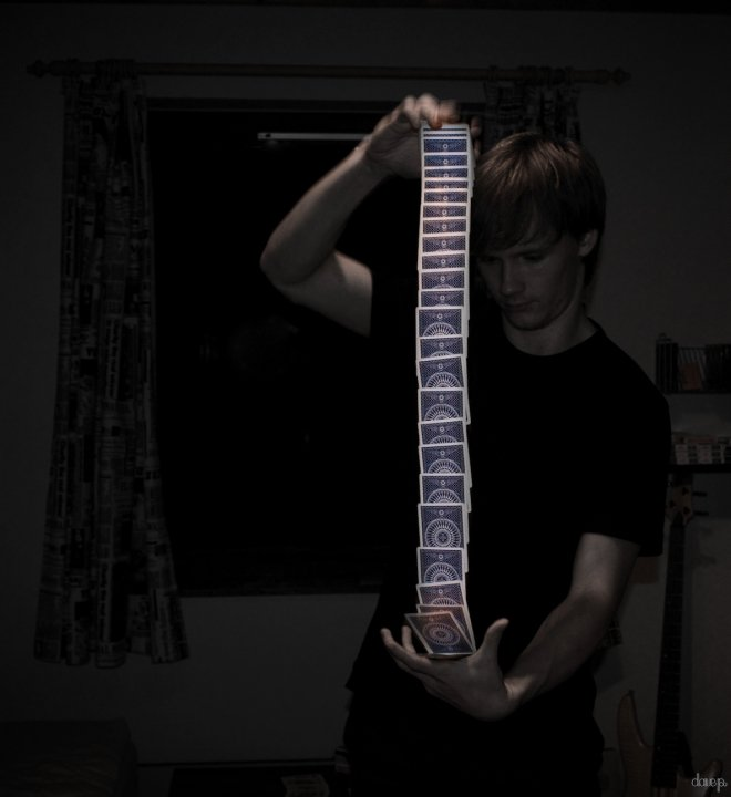 David Pedersen performs the Anaconda card flourish created by Bone Ho